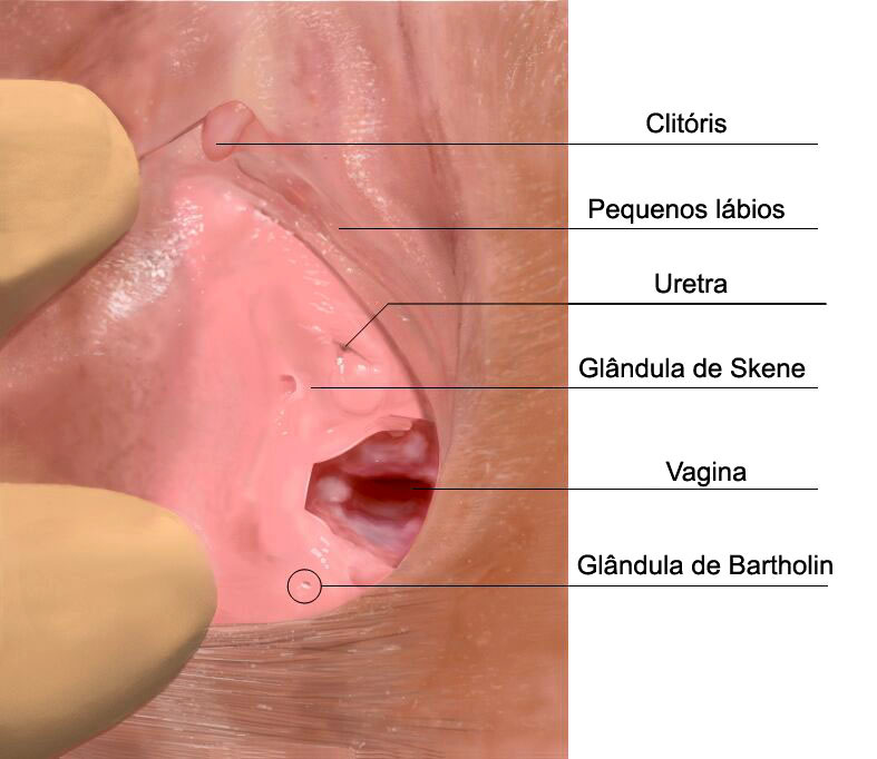 A new version of [1], legended in portuguese.